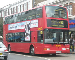 First Centrewest bus, a 2000 Dennis Trident 2 double-decker with Plaxton President bodywork of the TNL class (reg. series W--- VLN), pictured in The Broadway, Southall, Ealing, operating London Buses route 427.